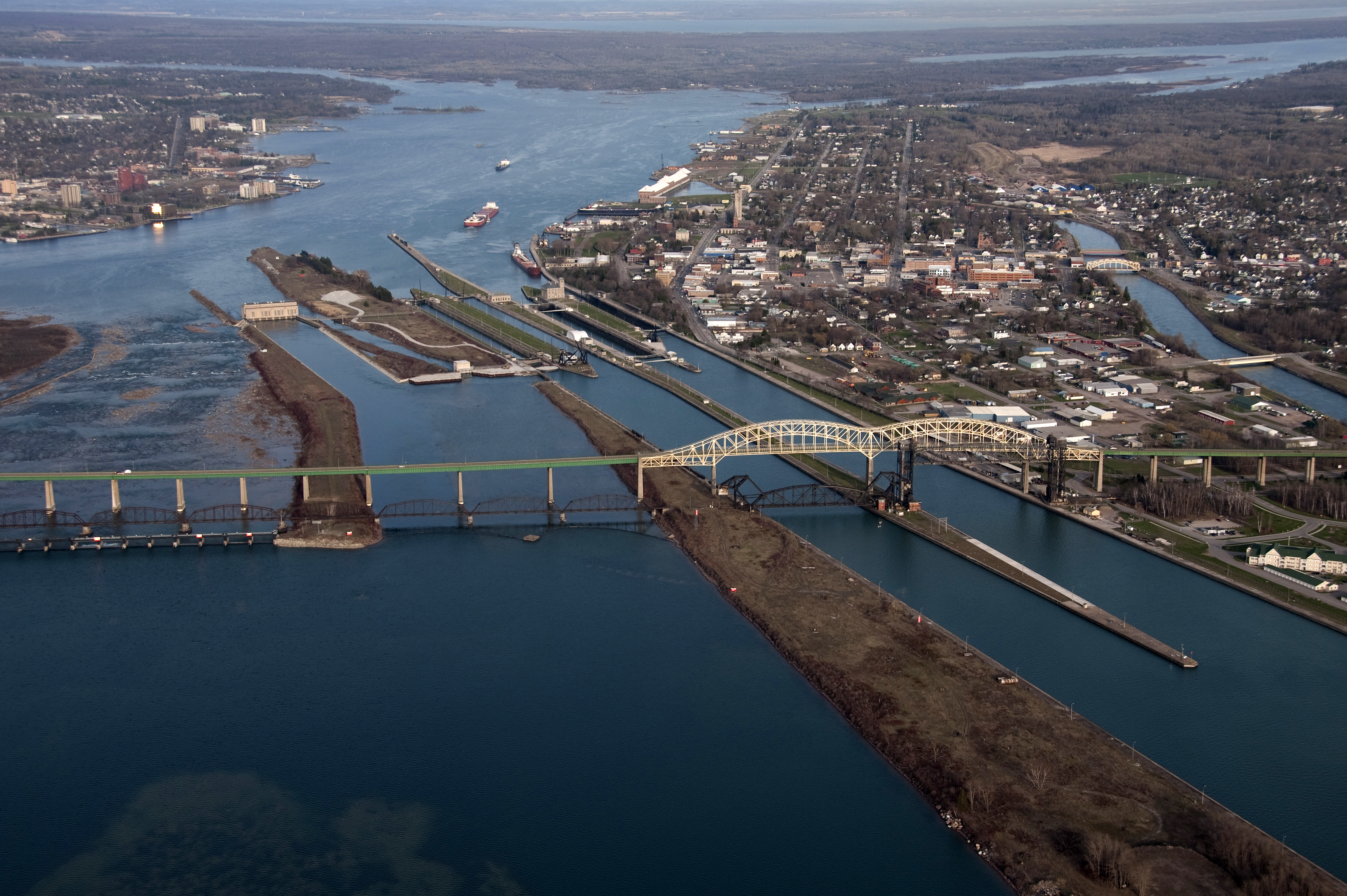 The Soo Locks and the Sault Ste. Marie International Bridge over the St. Marys River between Sault Ste. Marie, Ontario and Sault Ste. Marie, Michigan. View is looking east.